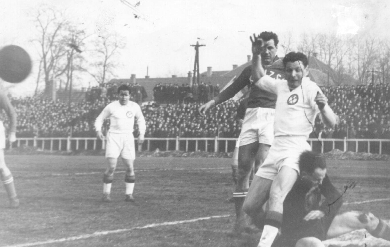 The stadium often was full